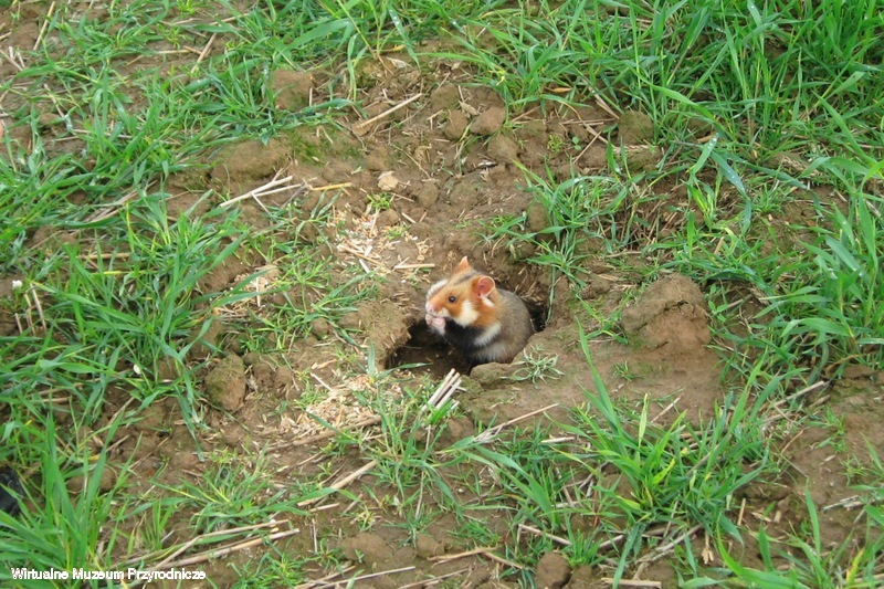 Cricetus cricetus - Lubin area; Poland